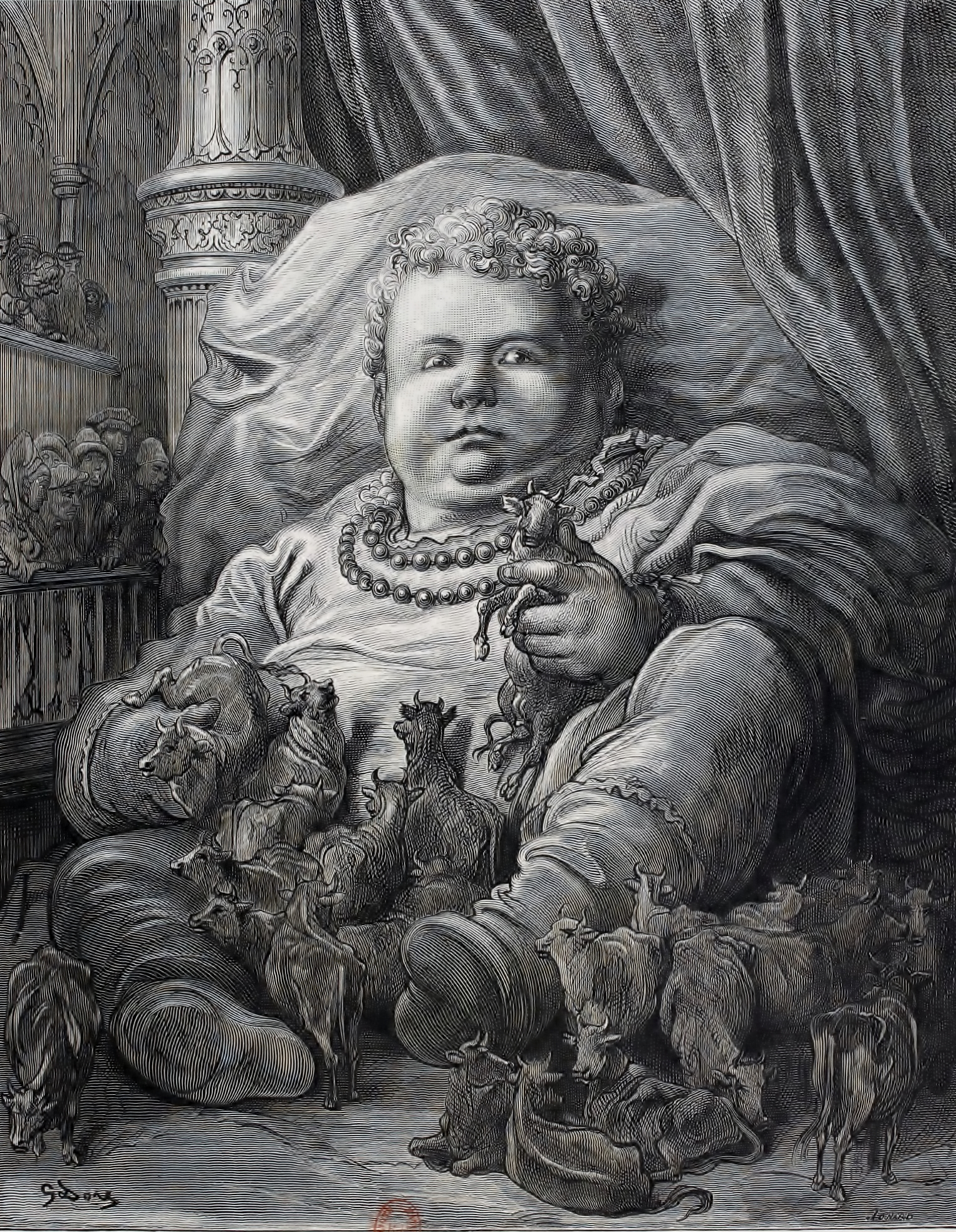 Pantagruel's childhood (by Gustave Doré)